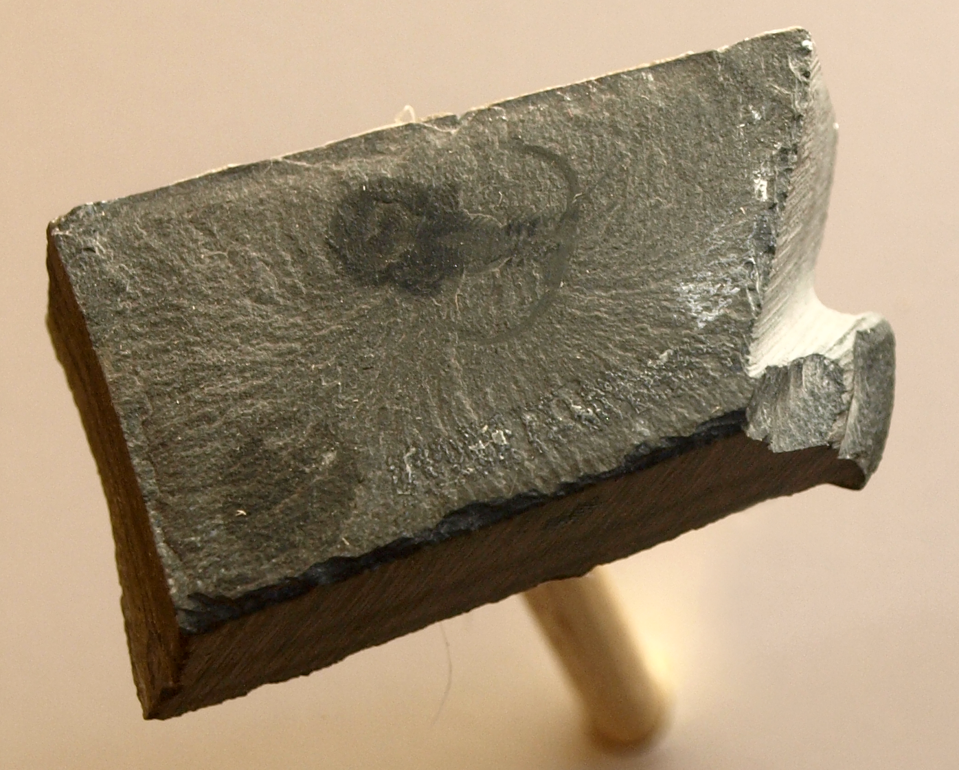 A fossil specimen of Marella splendens, on display at the Redpath Museum, Montreal.